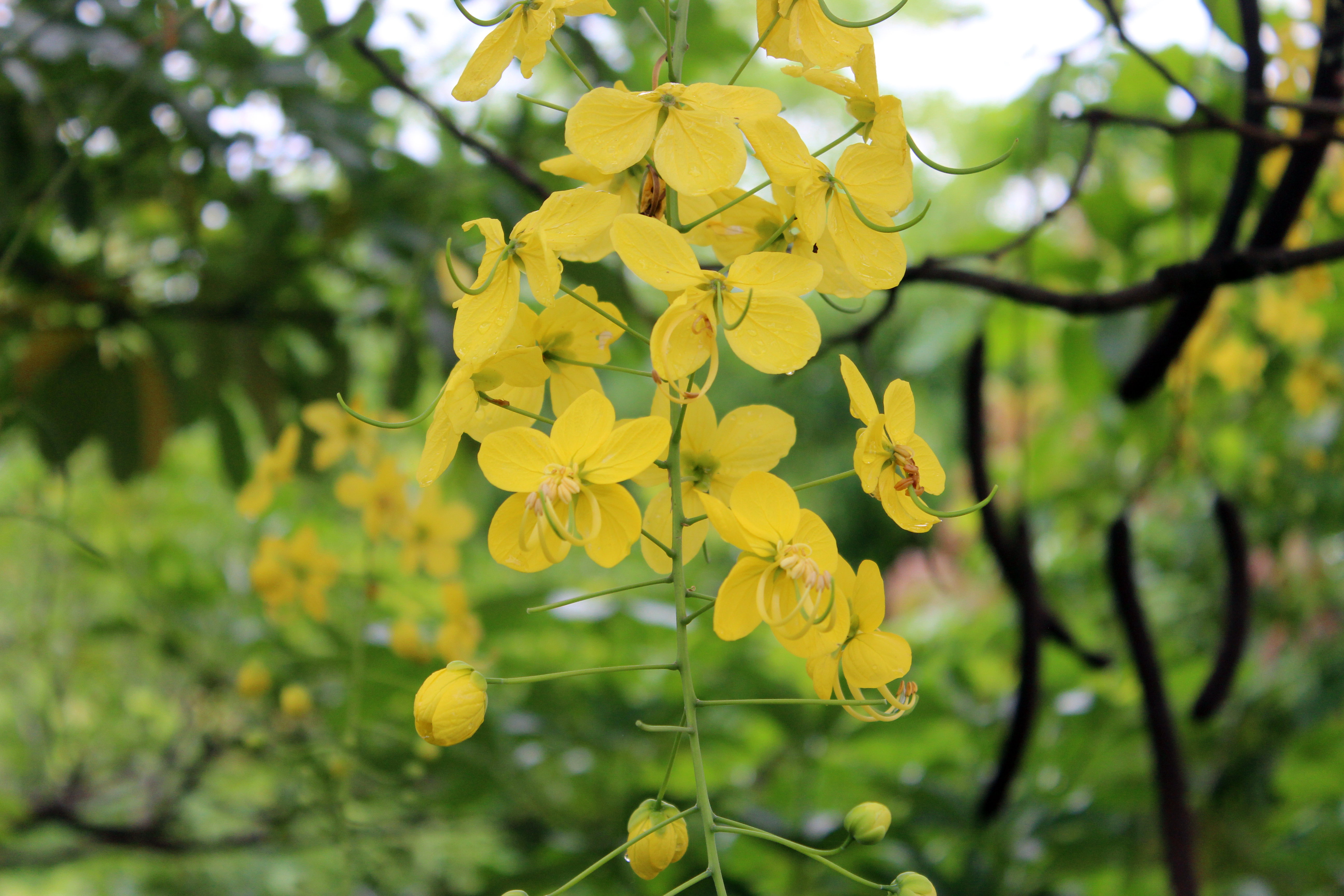 During Photowalk at Vanvihar National Park for GLAM at RMNH Bhopal, India